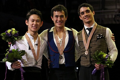 The Men's podium at the 2013 World Championships.From left: Denis Ten(2nd), Patrick Chan(1st), Javier Fernandez(3rd).